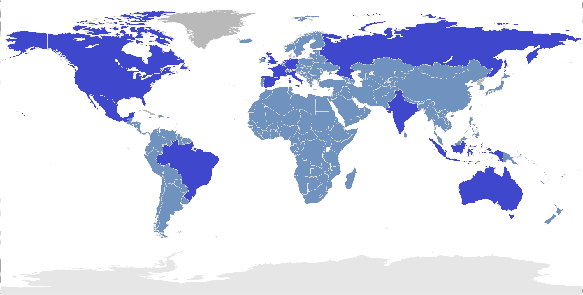 Countries, where Google Play Newsstand is available. Selling magazines and newspapers Only free Not available